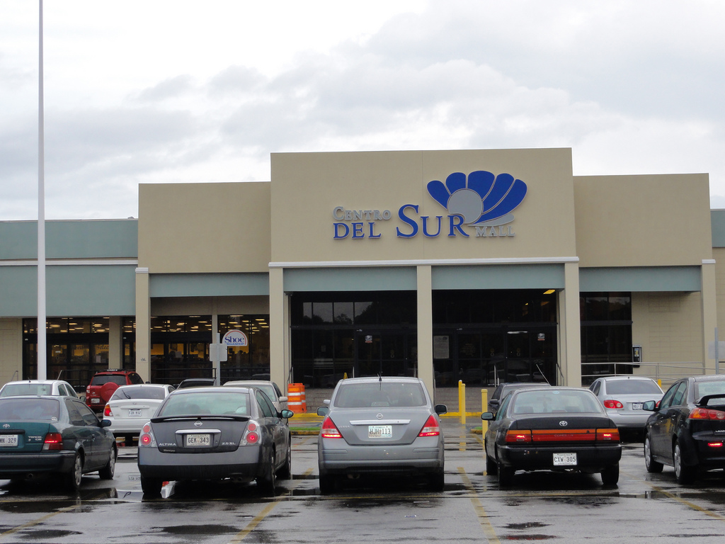 Southern entrance to Centro del Sur Mall in Barrio San Anton in Ponce, Puerto Rico